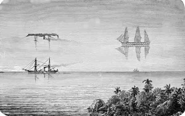 A 19th century book illustration, showing grossly misleading fictional versions of superior mirages. Actual mirages can never be that far above the horizon, and a superior mirage can never increase the length of an object as shown on the right.